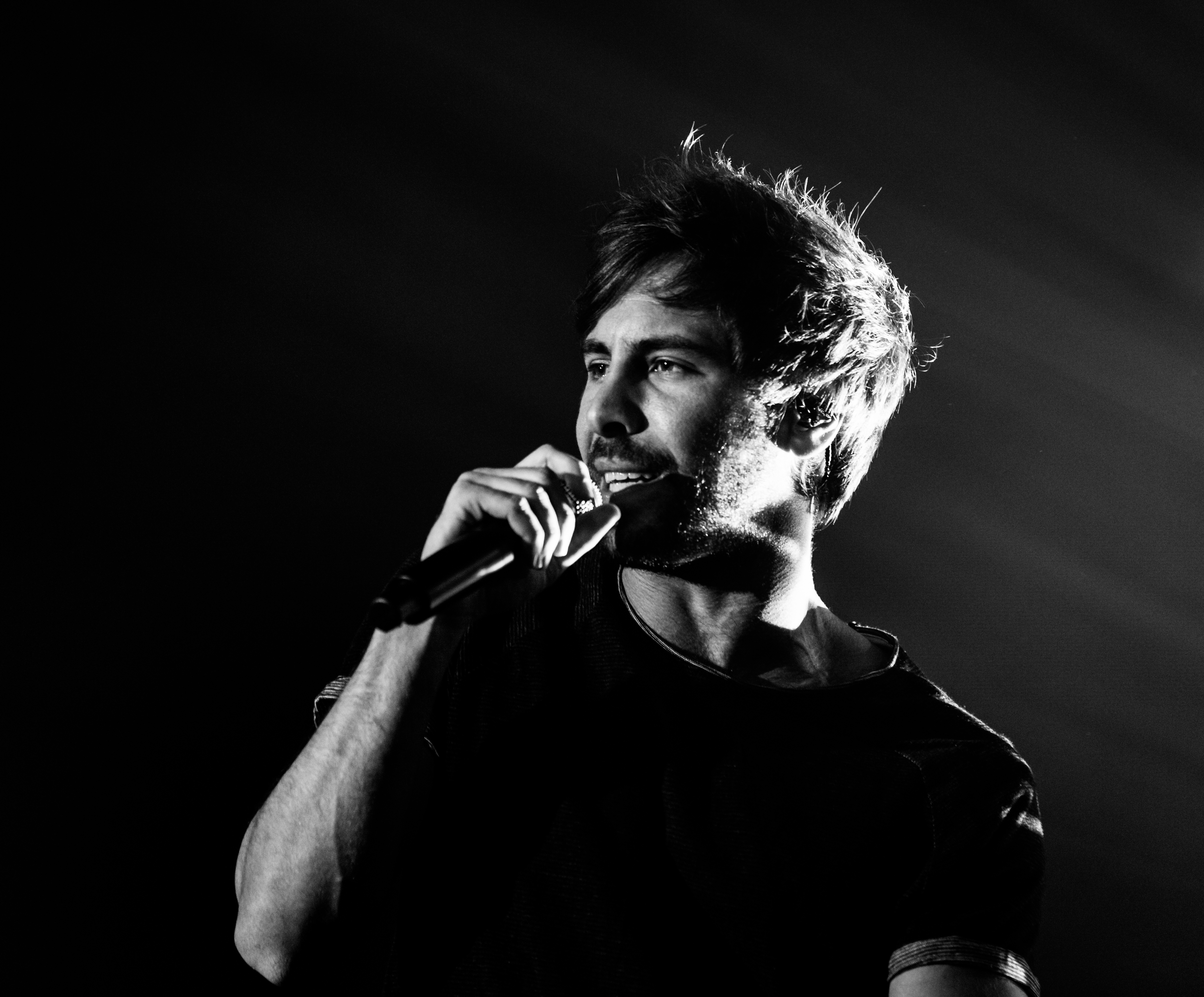 Max Giesinger - Leverkusener Jazztage 2017